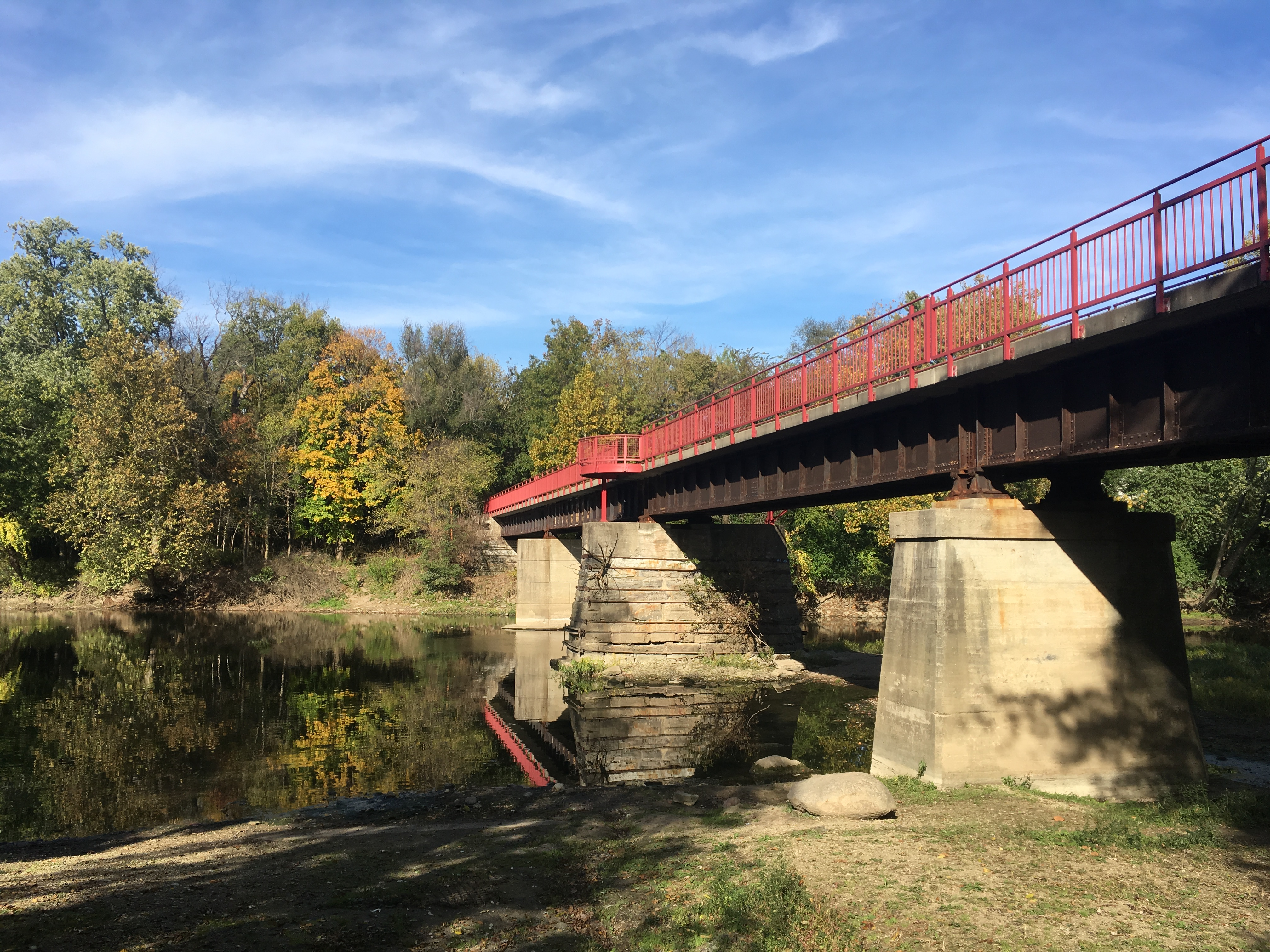 This photo depicts the Monon Trail and White River in October 2017 in Indianapolis, Indiana, USA.